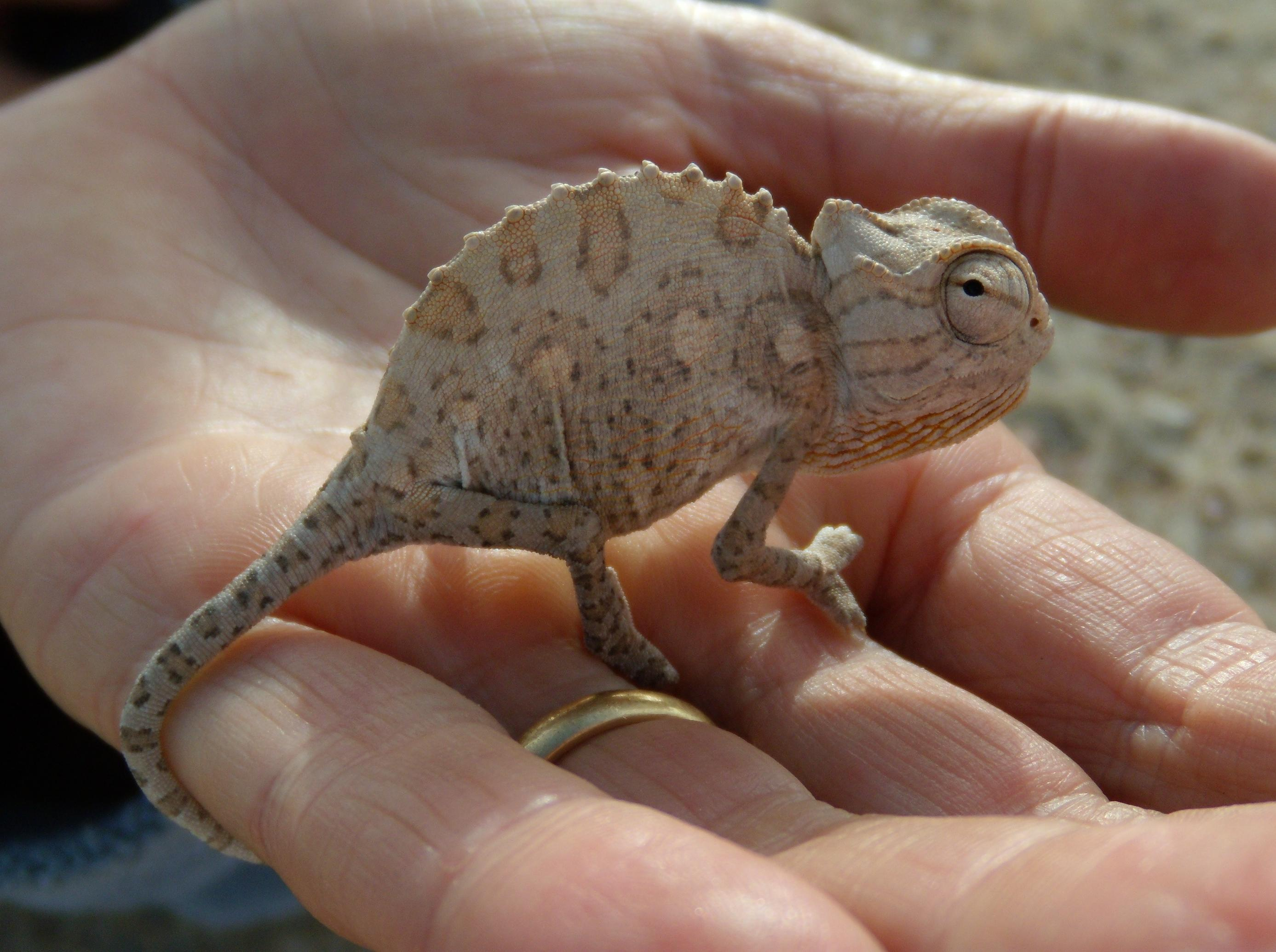 Namaqua Chameleon, Usakos